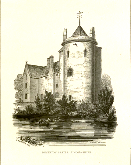 Somerton Castle, Lincolnshire, seen from the southeast